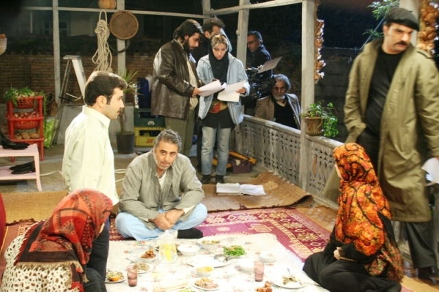 Behind the Scenes series, empty frames Photo: Sara ardebili